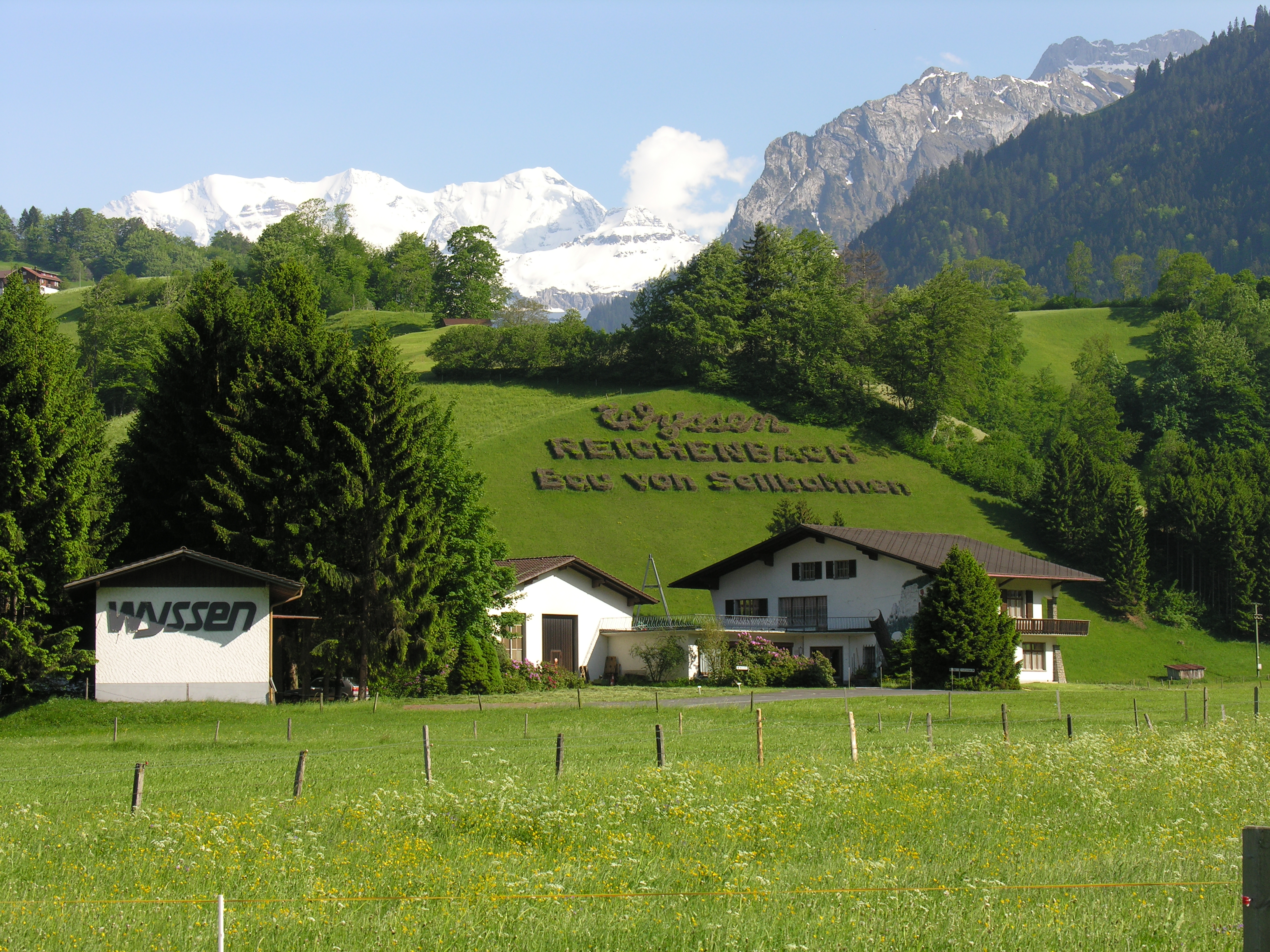 The Wyssen Seilbahnen AG corporate building in Switzerland, behind the beautiful Blüemlisalp.